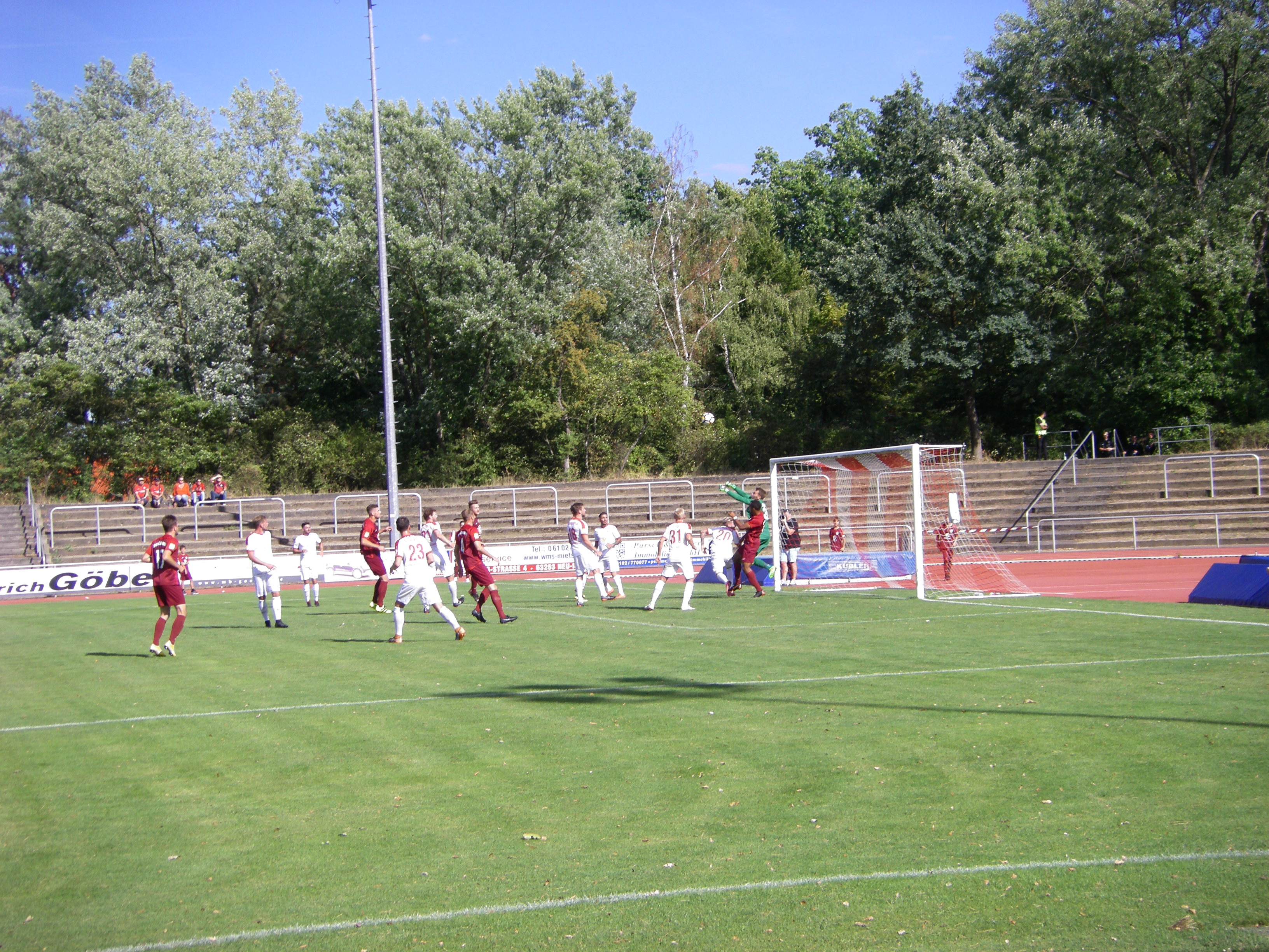 Scene of the match between SpVgg 03 Neu-Isenburg vs KSV Hessen Kassel (0:2) on August 11, 2018